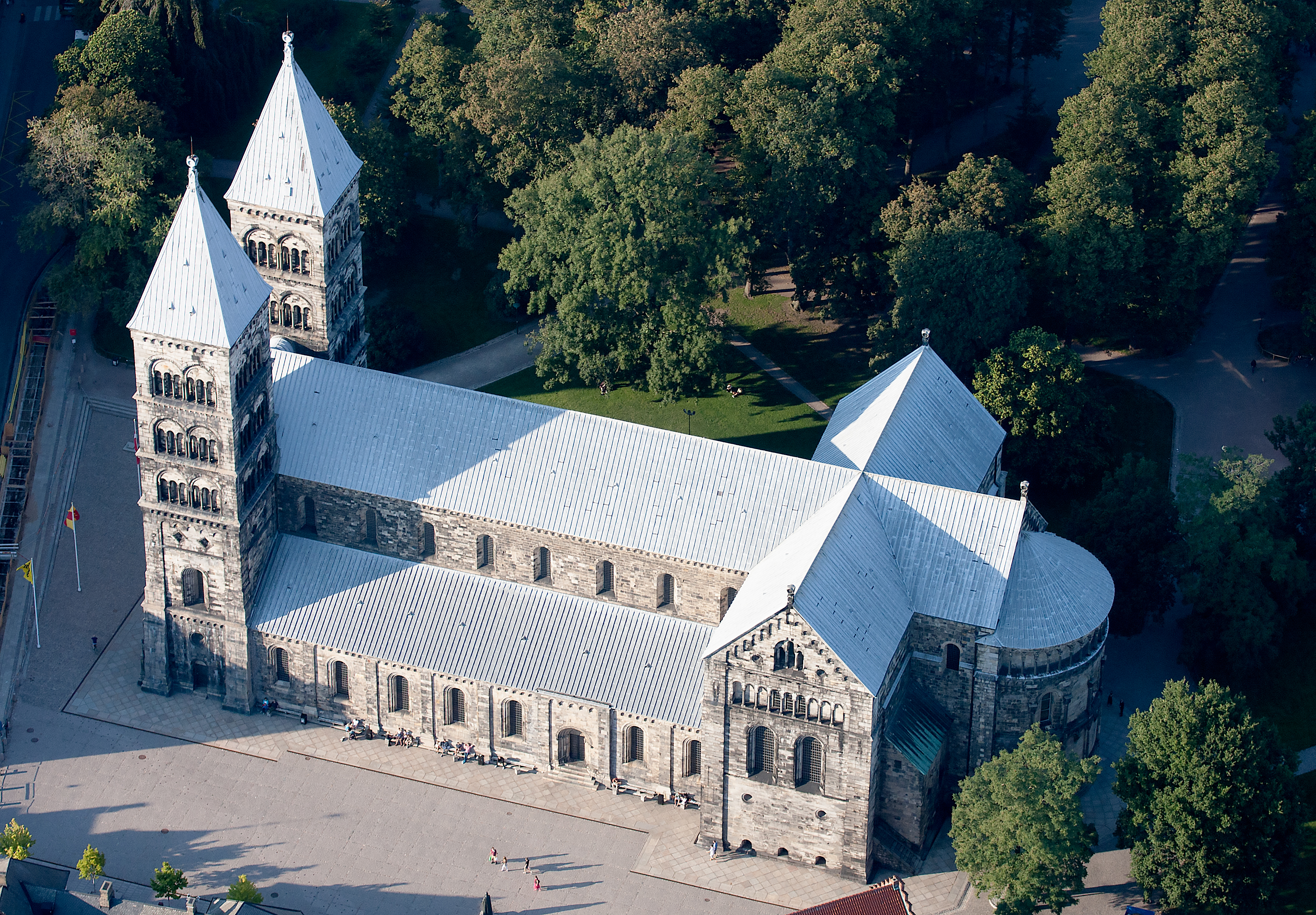 Lund Cathedral in Lund, Sweden.